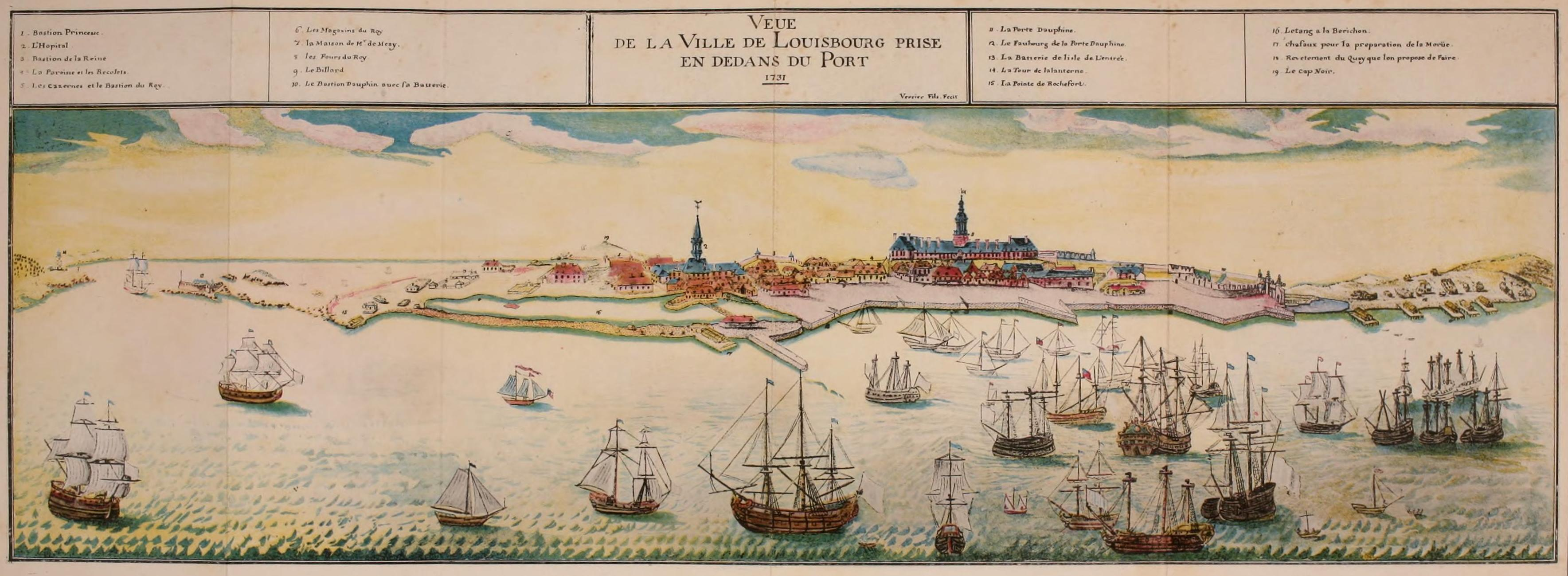 Panorama of Louisbourg in 1731 in color with ships in the harbor.